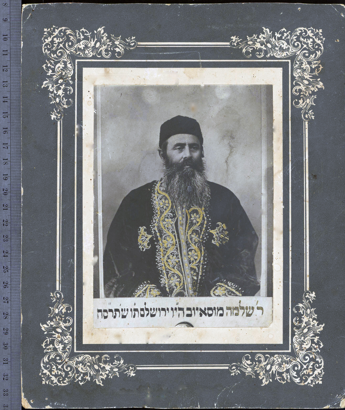 Picture of Shlomo Moussaieff